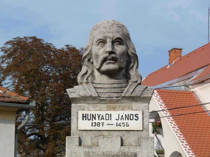 John Hunyadi bust